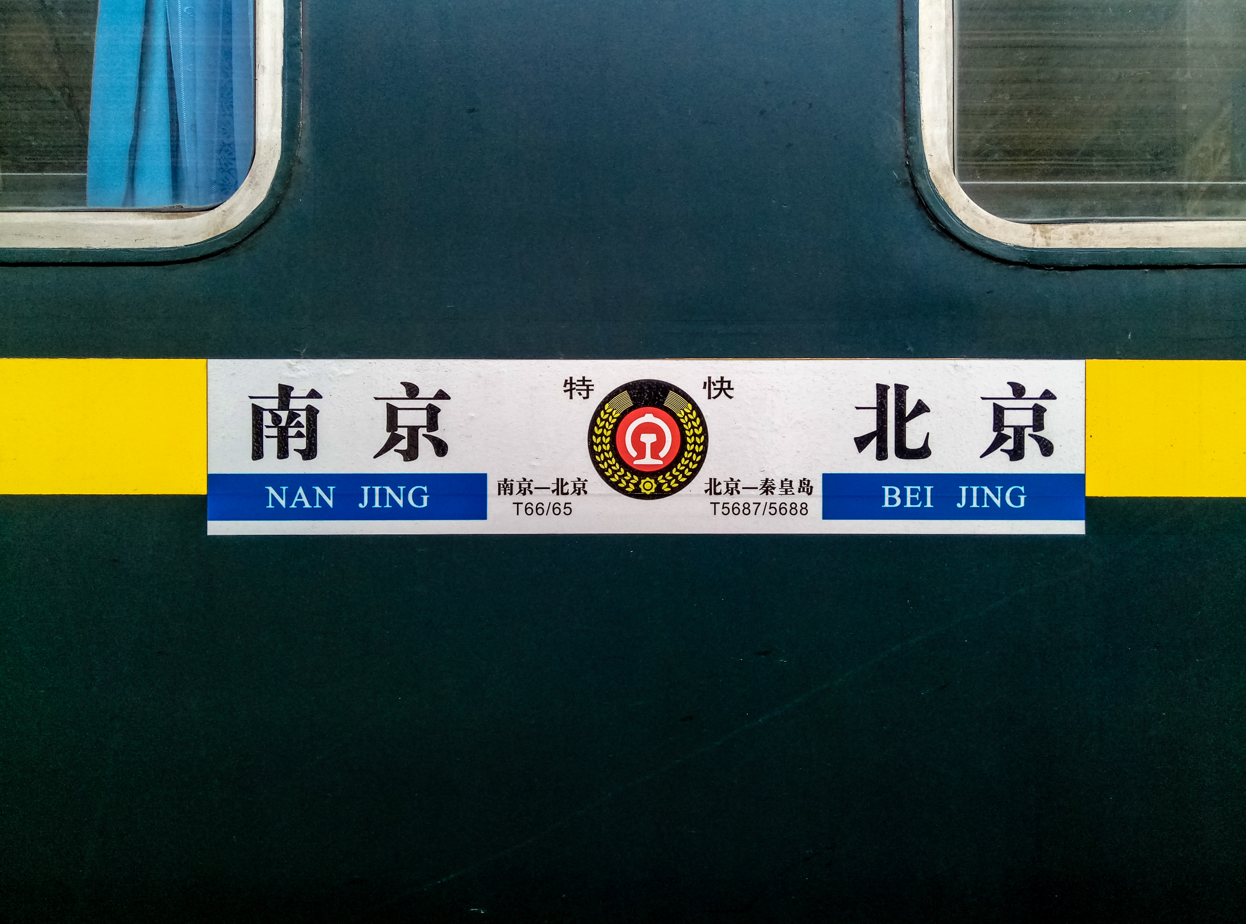 T65 6 and T5687 8 Information Board